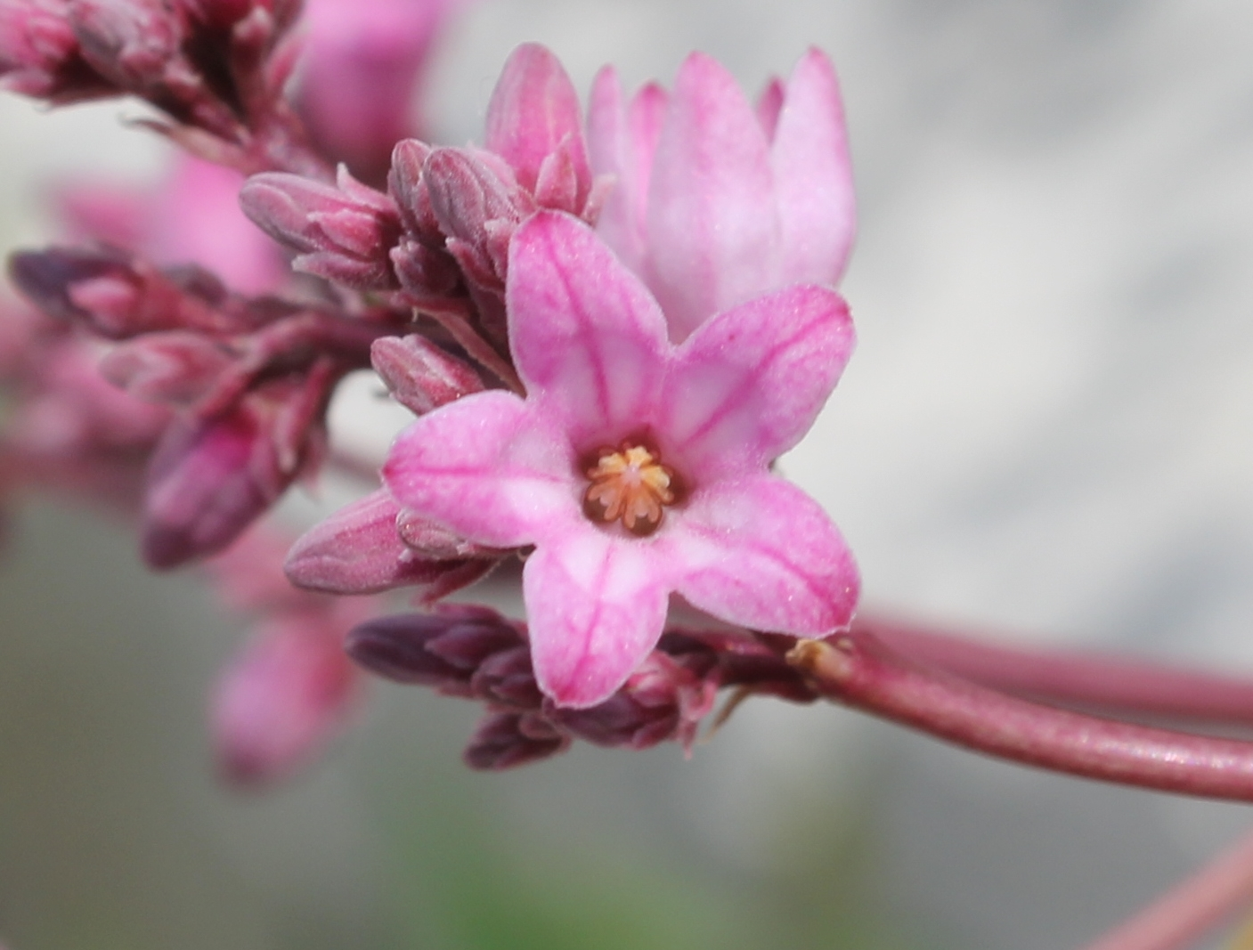 Apocynum venetum petals